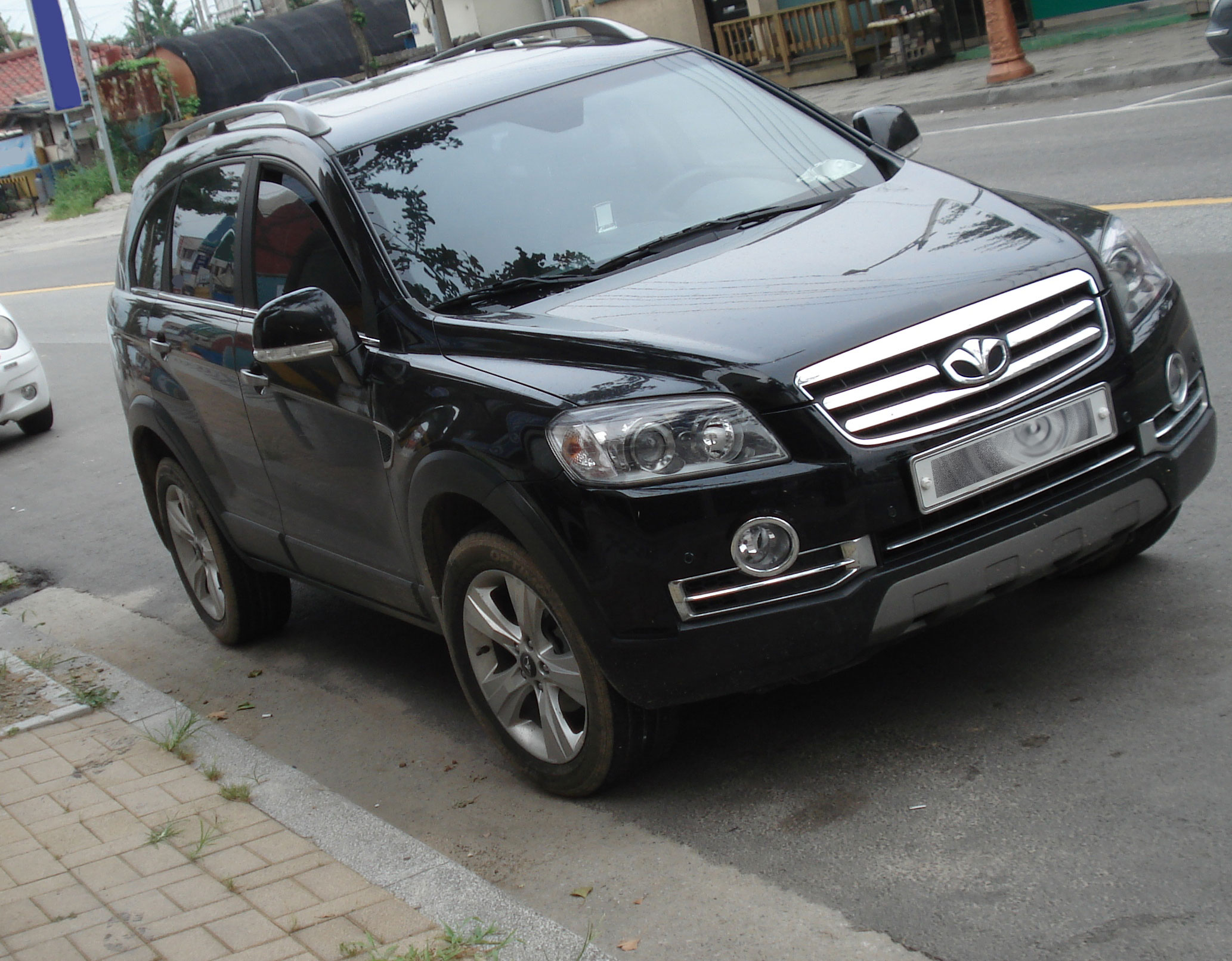 Daewoo Winstorm